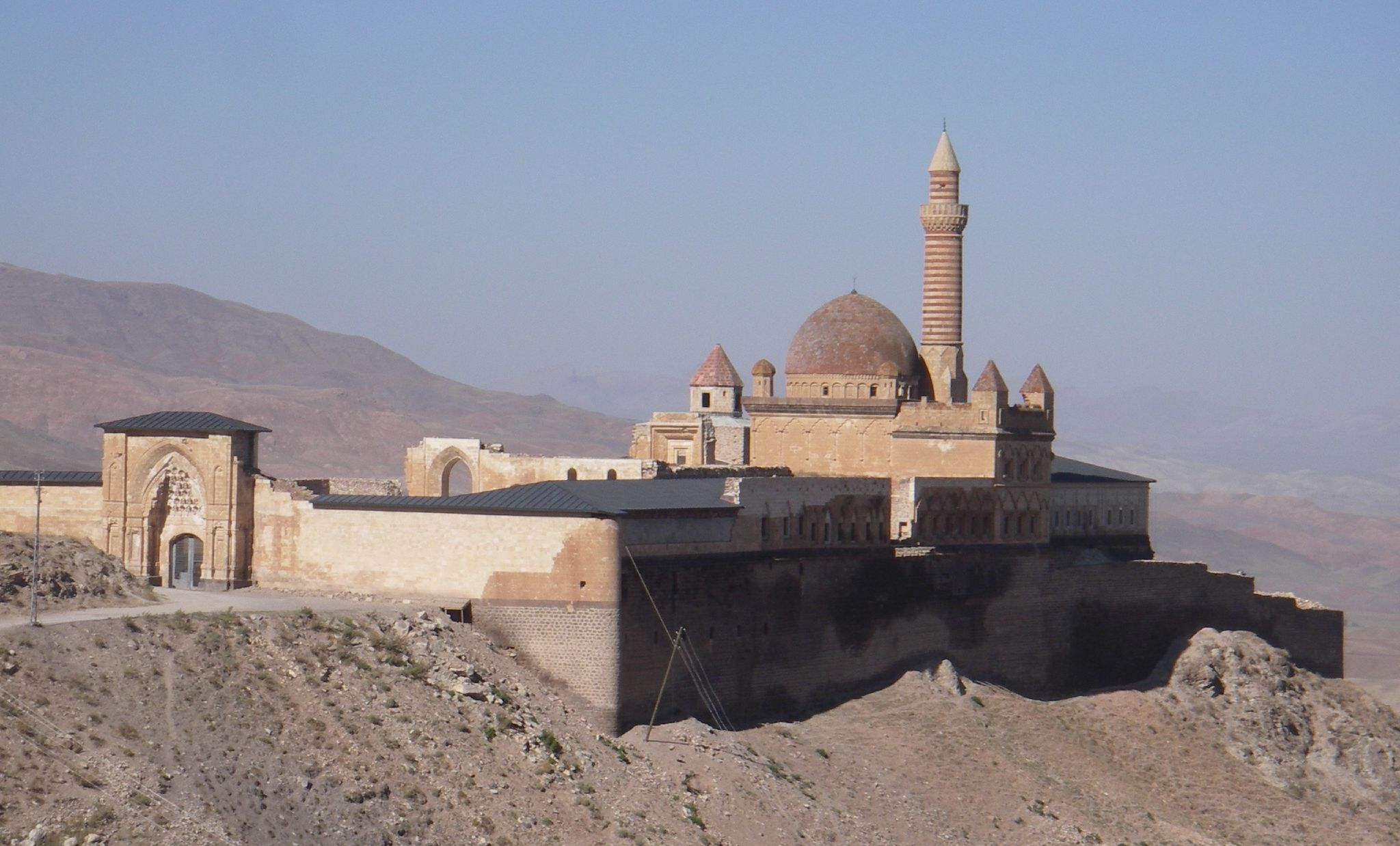 Picture showing the ishak pasha palace in dogubeyazit in eastern turkey